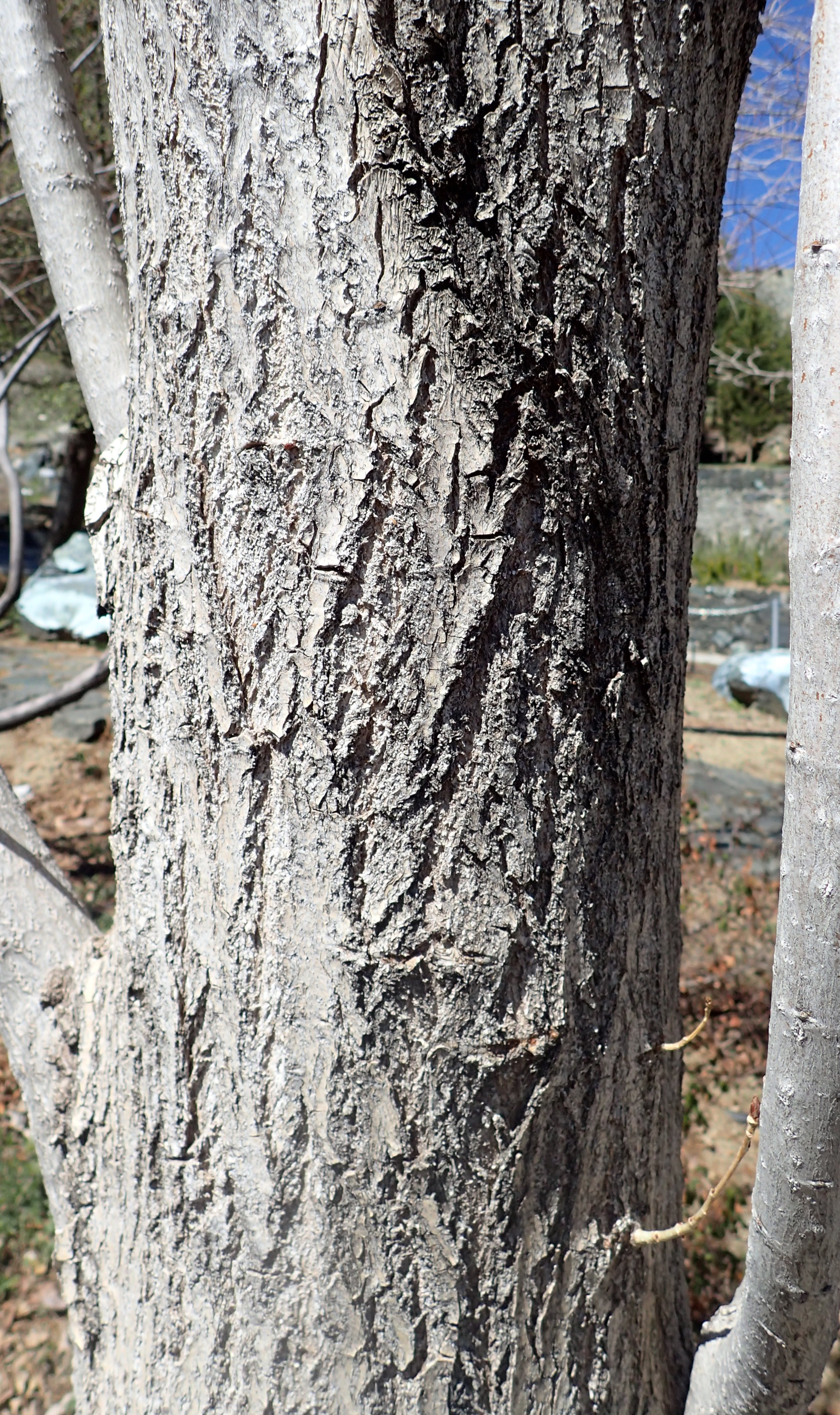 Populus afghanica in Troodos Botanical Graden